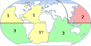 Tropical cyclone name by oceans. 1: Hurricane 2: Typhoon 3: Cyclone